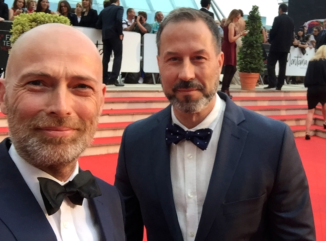 Knut Kainz Rognerud and photographer Michael Jansson in Monte Carlo